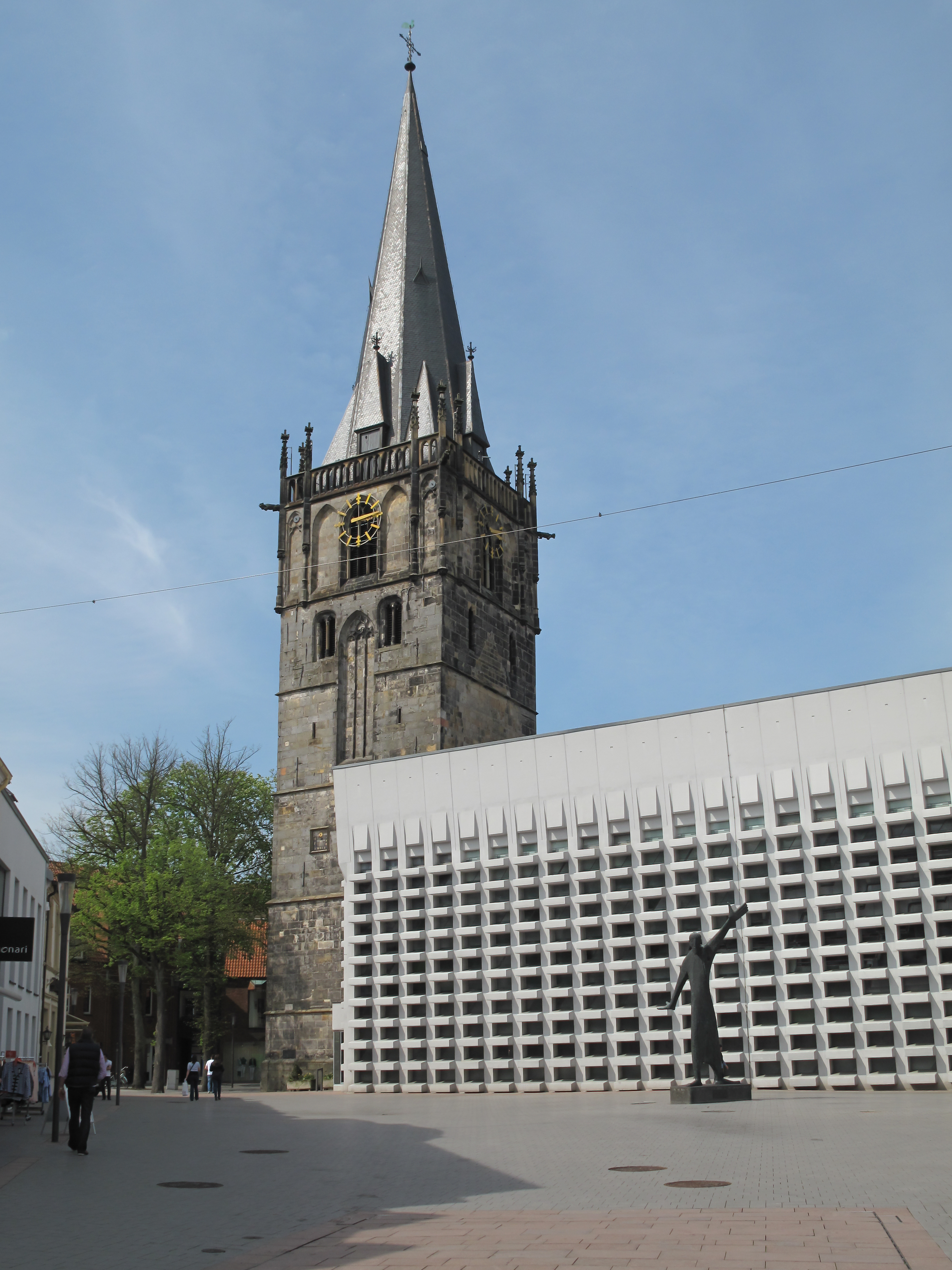 Ahaus, church: die Sankt Mariä Himmelfahrtkirche